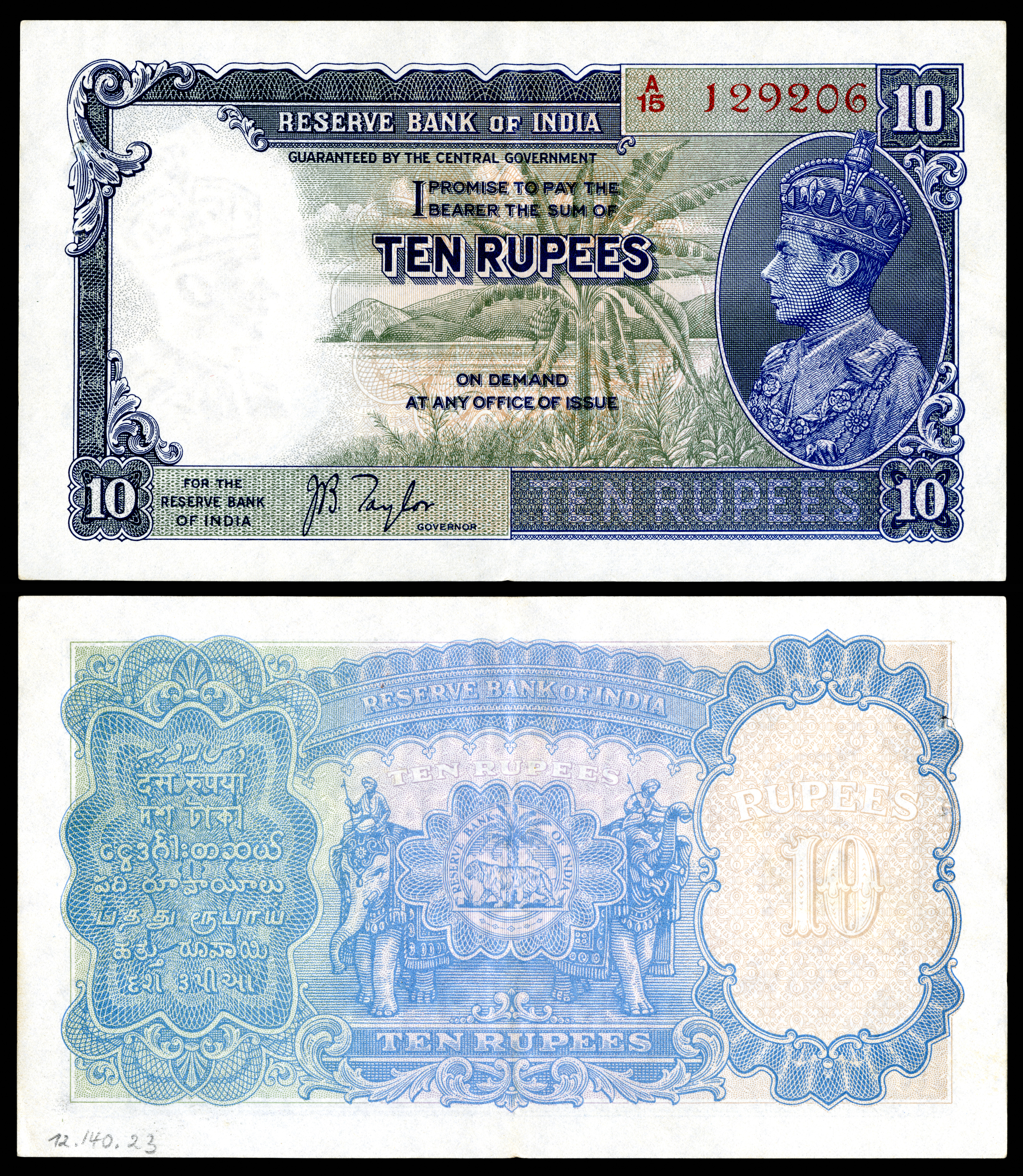 Reserve Bank of India-10 Rupees (1937)